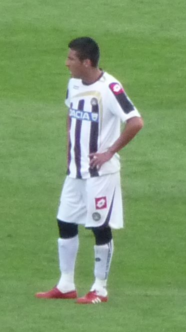 Udinese - Catania 4-2 13/09/2009